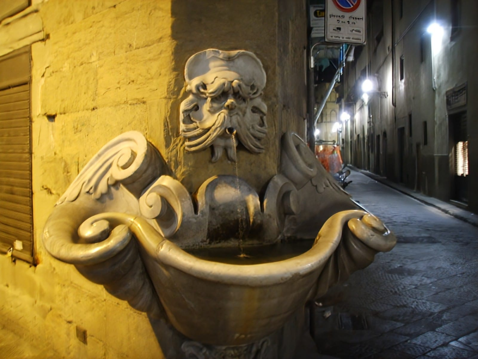 Ammannati fountain by night, Florence, Italy